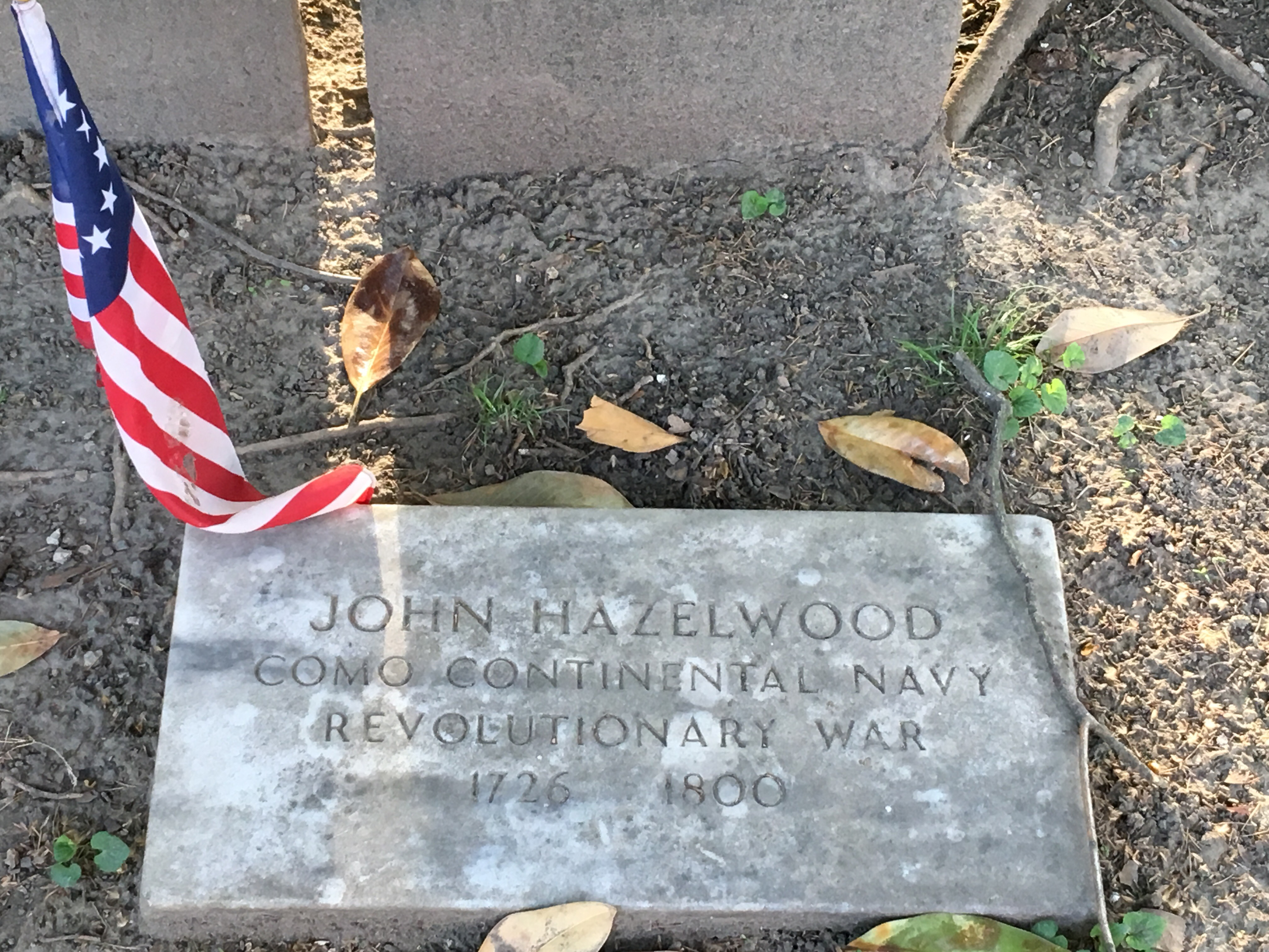 Gravestone of Commodore John Hazelwood at St. Peter's Episcopal Church in Philadelphia, PA